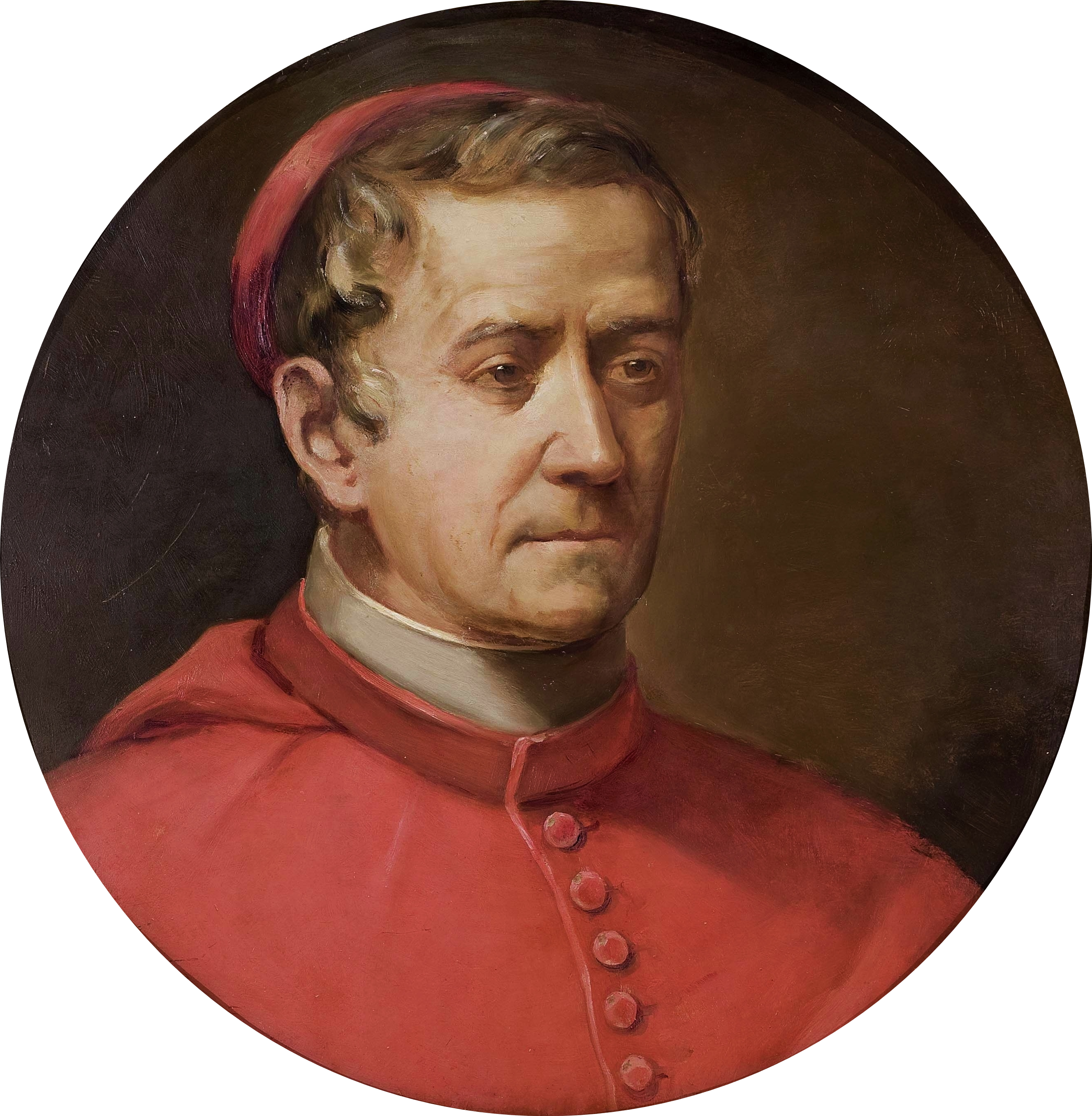 Portrait of the Cardinal Guilherme Henriques de Carvalho, Patriarch of Lisbon, in the Palace of Saint Benedict.